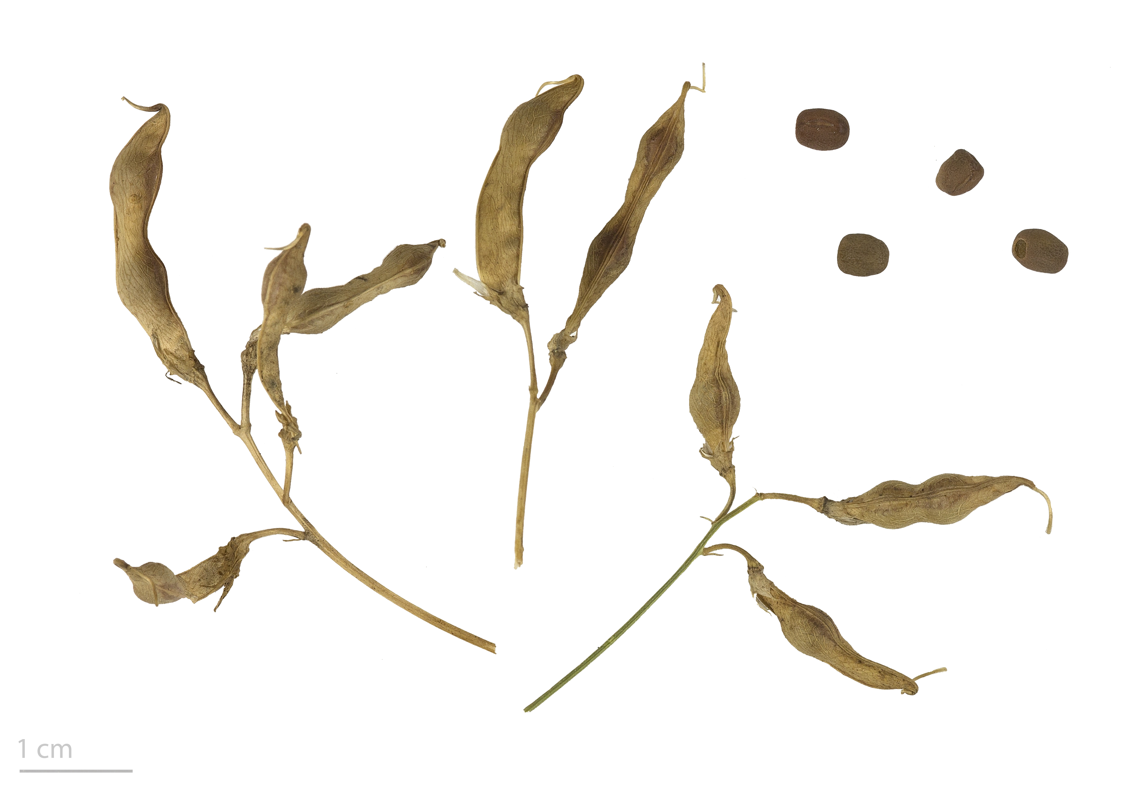 Lathyrus tuberosus, tuberous pea, seeds